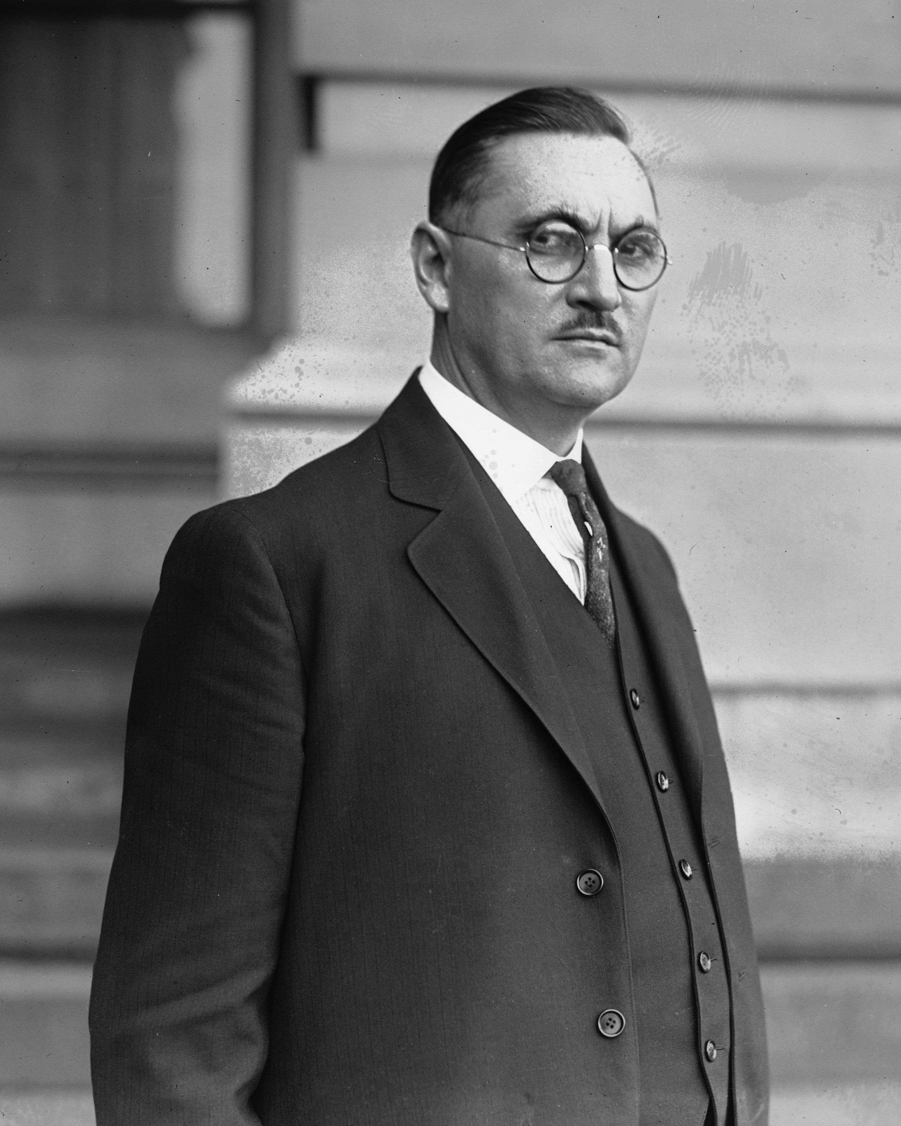 Title: Sam B. Hill of Washington, 11/24/23 Abstract/medium: 1 negative : glass ; 5 x 7 in. or smaller